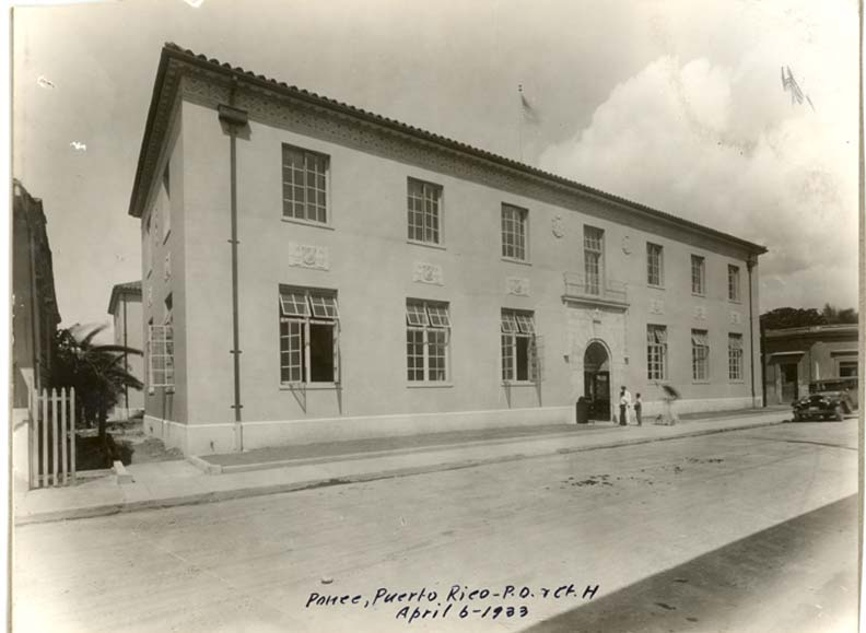 Antiguo Correo de la Calle Atocha en Ponce, PR